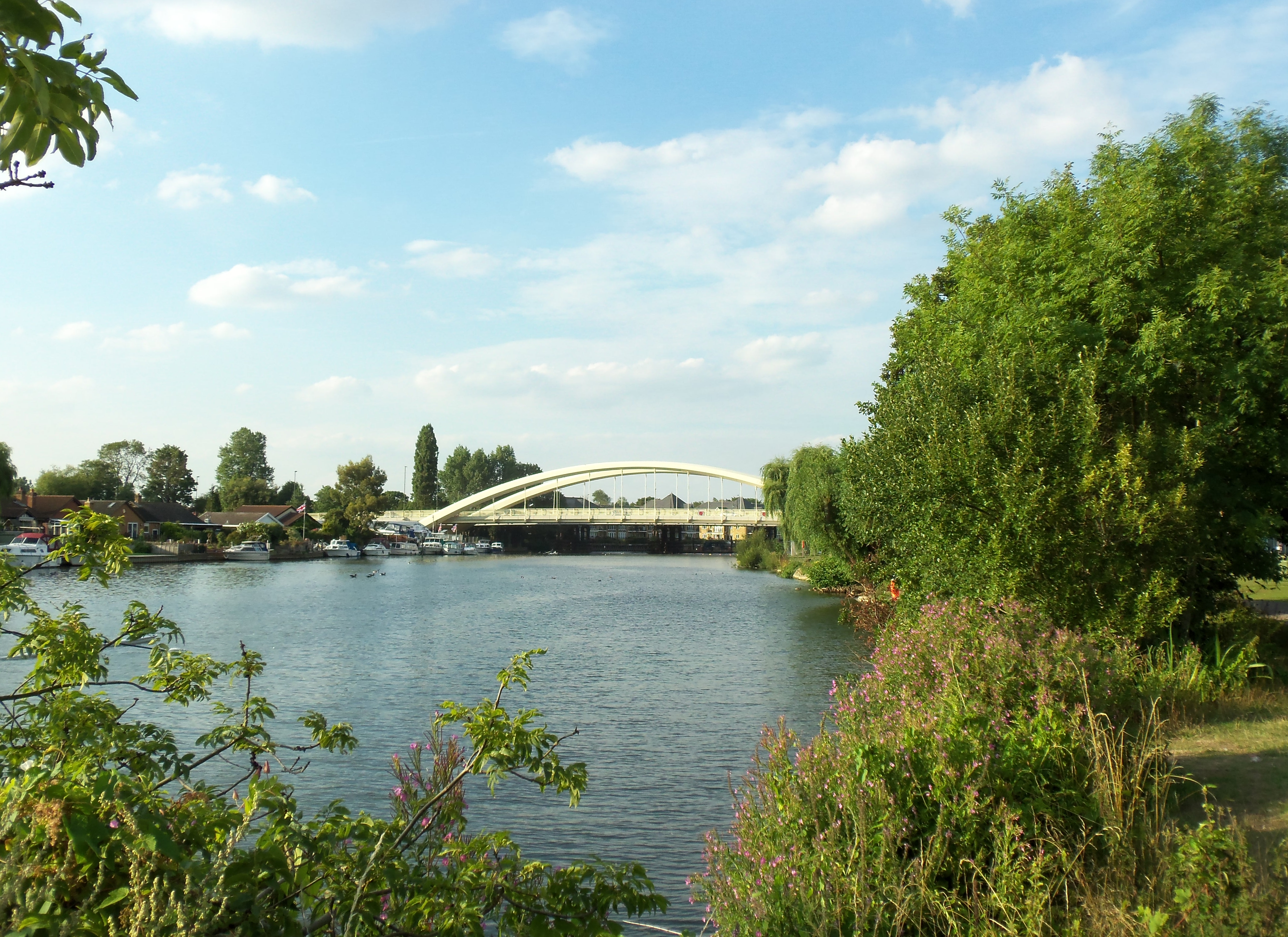 Walton Bridge between Cowey Sale, Walton-on-Thames and Lower Halliford, Shepperton on 7 August 2013 taken with Kodak EasyShareM580 and straightened. This is the only bridge open between the Surrey boroughs of Spelthorne and Elmbridge in the United Kingdom